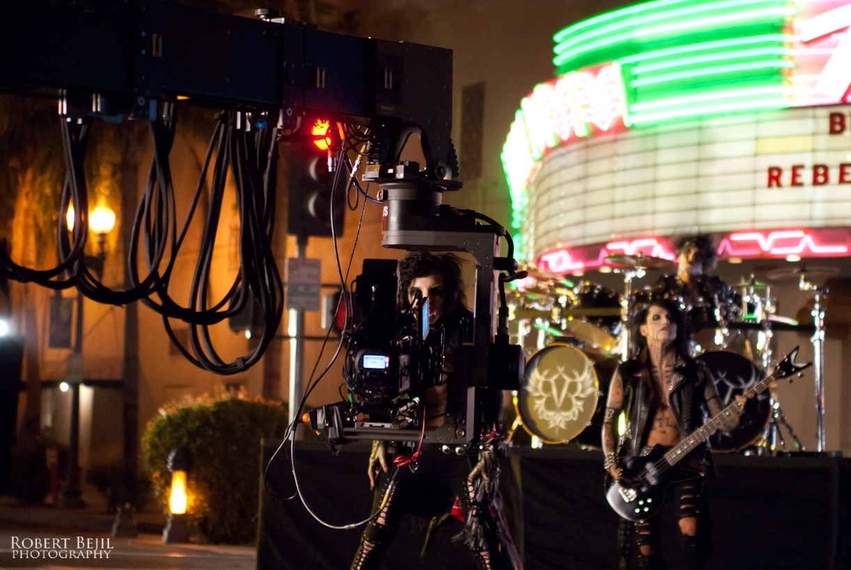 Behind the scenes shots of Black Veil Brides shooting their music video for "Rebel Love Song".